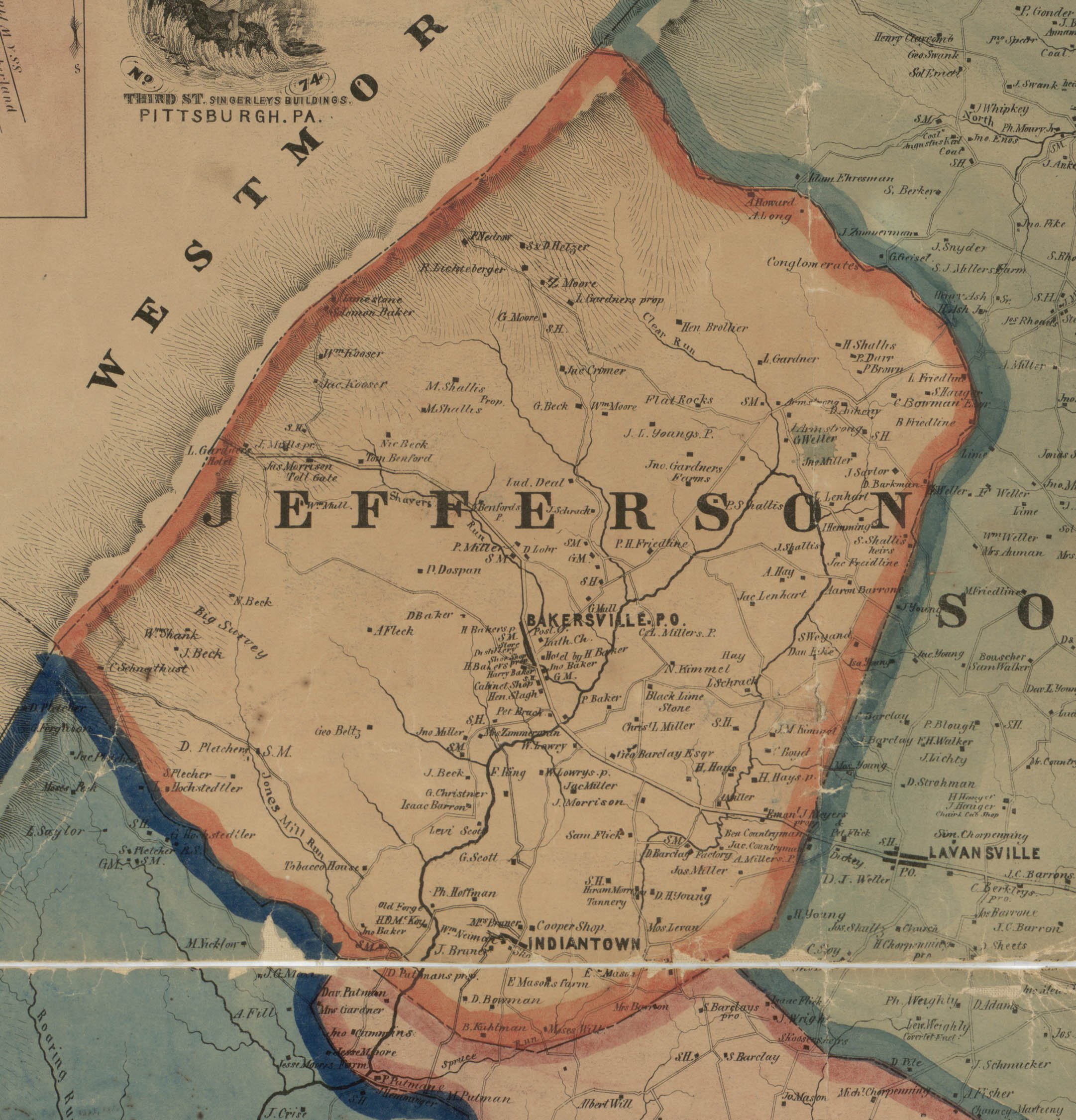 Map of Jefferson Township taken from 1860 Edward L. Walker map of Somerset County, Pennsylvania, available at the Library of Congress website